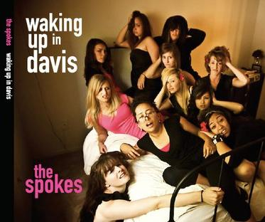 "Waking Up in Davis" album cover